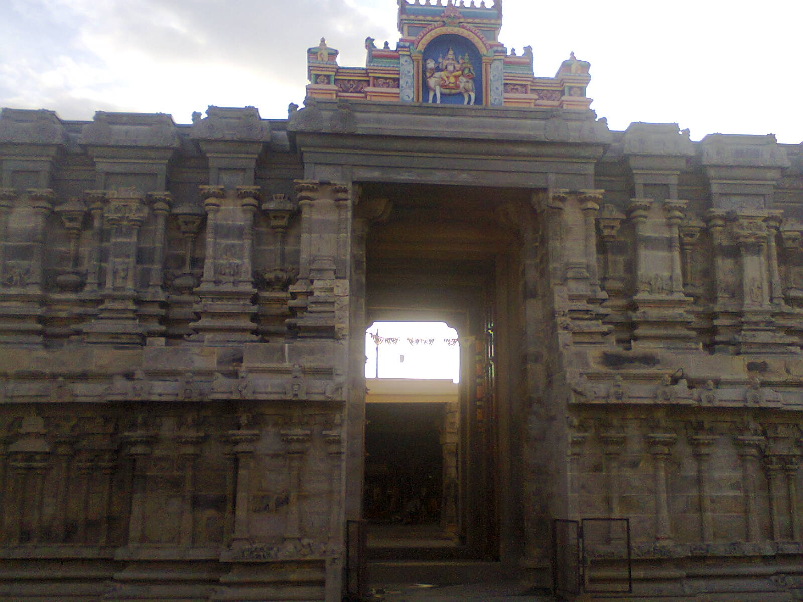 Srivaikundam Sivan Temple Front View